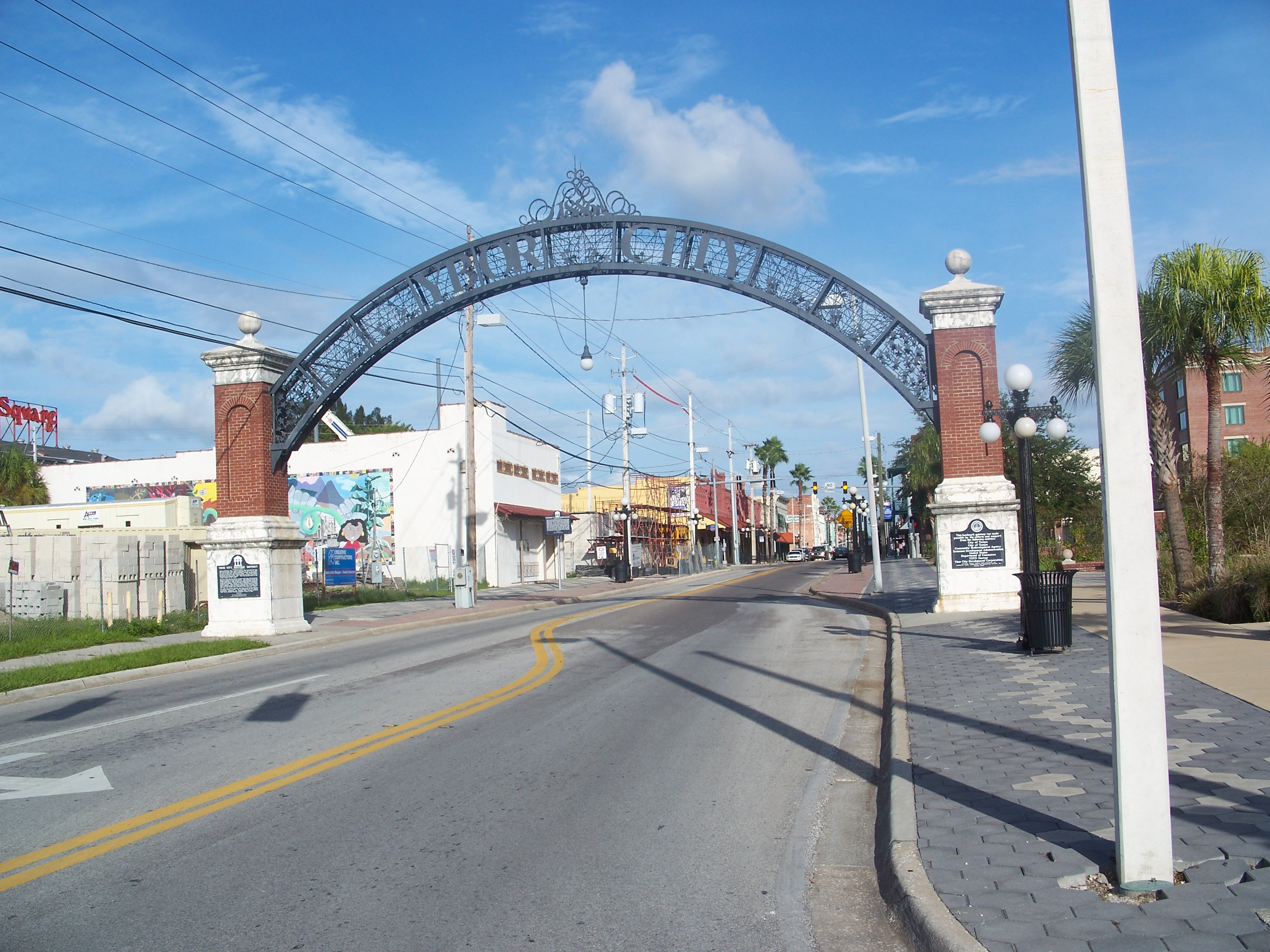 Entrance gateway into Ybor City, in Tampa, Florida